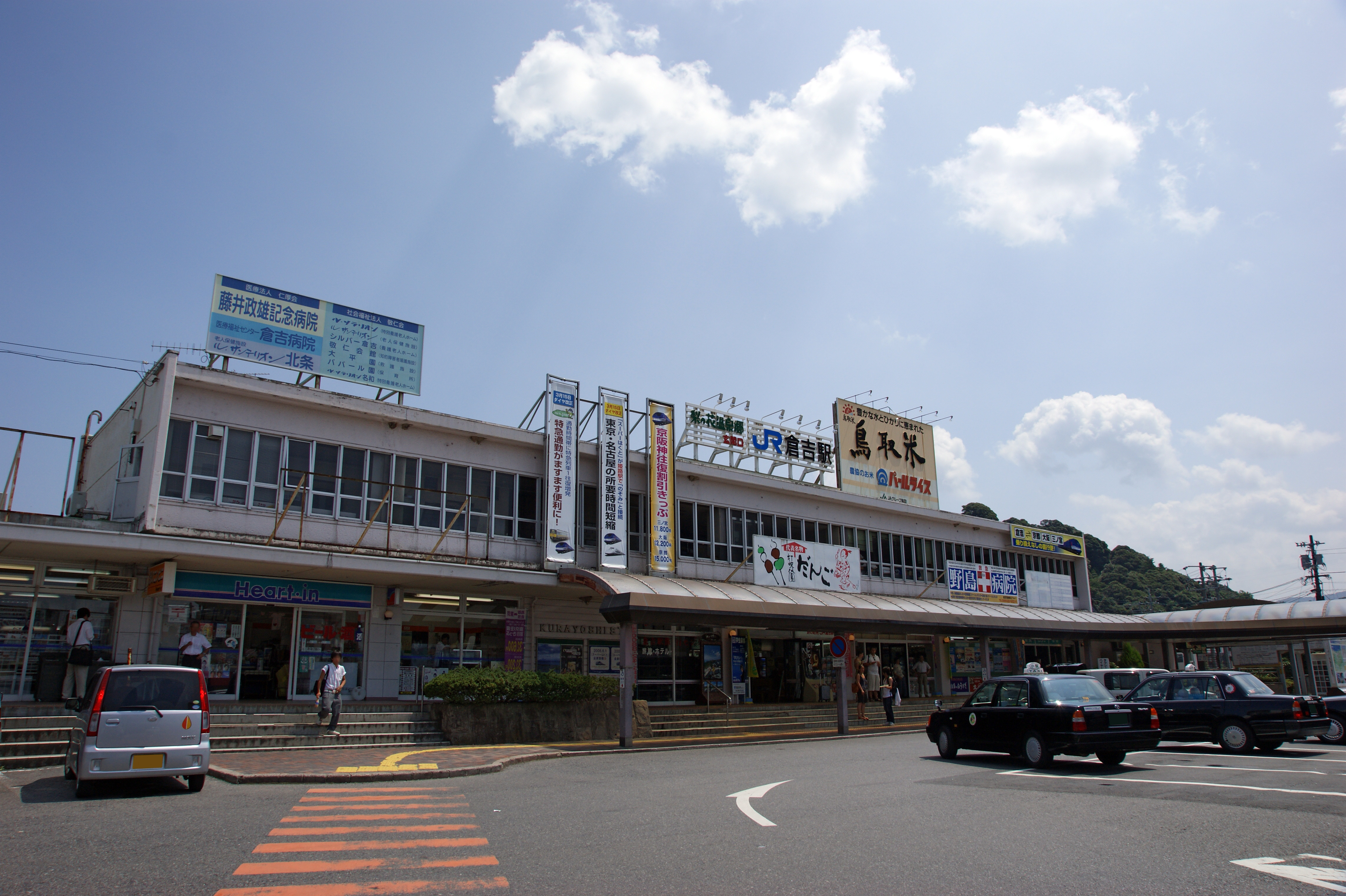 Kurayoshi Station in Kurayoshi, Tottori prefecture, Japan